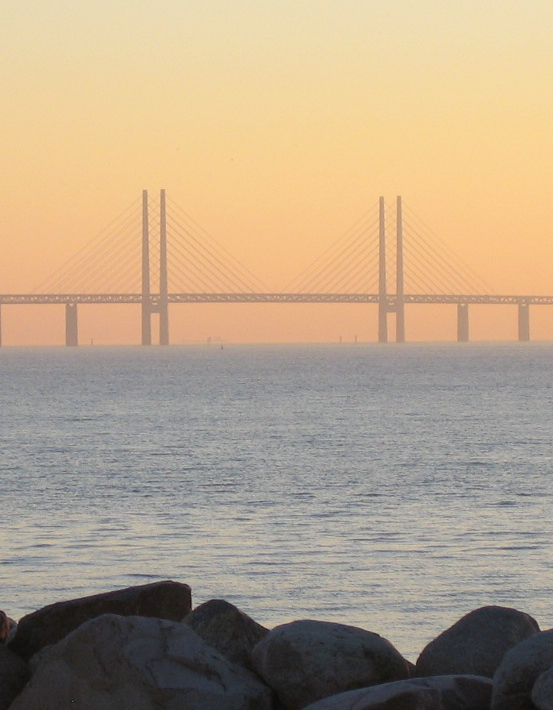 The Öresund bridge at sunset.